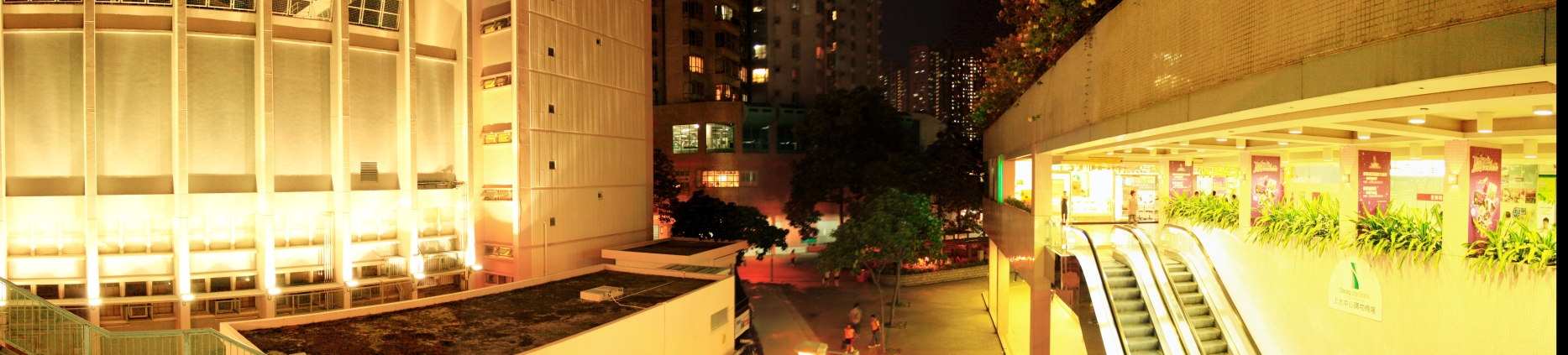 Junction between Sheung Shui Centre and North District Town Hall